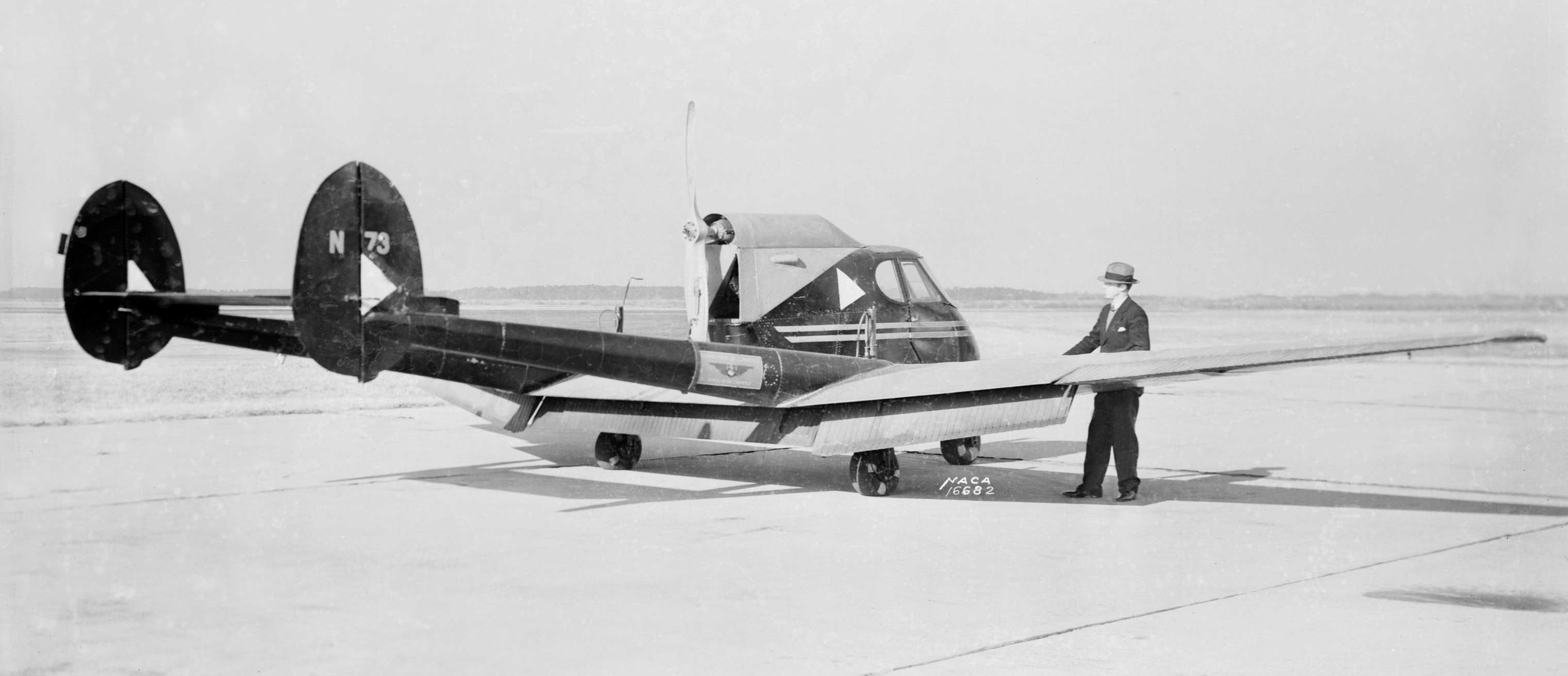 The Stearman Hammond Y aircraft was produced to compete in a "Safe Aircraft" competition in January 1939. It was the winner of the $700 prize which was sponsored by the Department of Commerce. The model Y used many of the safety features the NACA's Fred Weick developed for his W-1 aircraft.